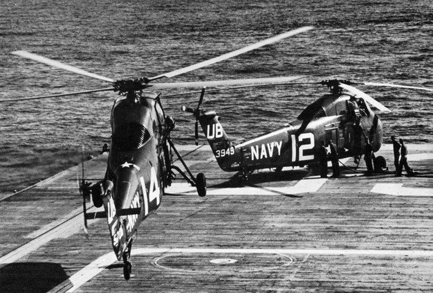 Two U.S. Navy Sikorsky HSS-1 Seabat of Helicopter Anti-Submarine Squadron HS-6 Indians aboard the aircraft carrier USS Kearsarge (CVS-33). HS-6 was assigned to the Kearsarge for a deployment to the Western Pacific from 15 September 1959 to 15 March 1960.